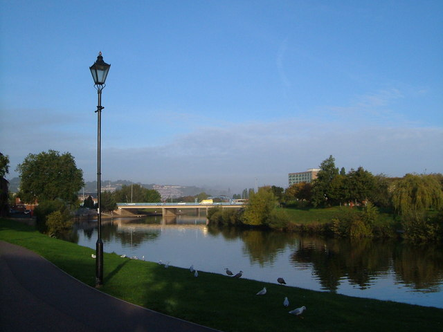 River Exe at Exeter. A view upstream to Exe Bridge South (I'd say "East") from the pathway near Haven Road. 253275 peers over the trees.